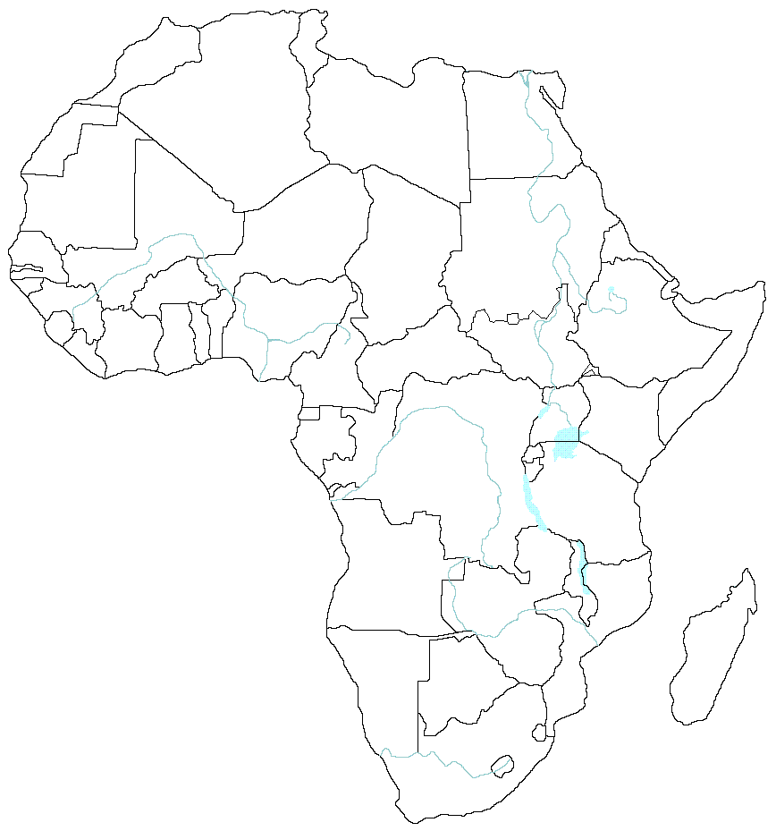 African map (with political borders and main rivers and lakes)